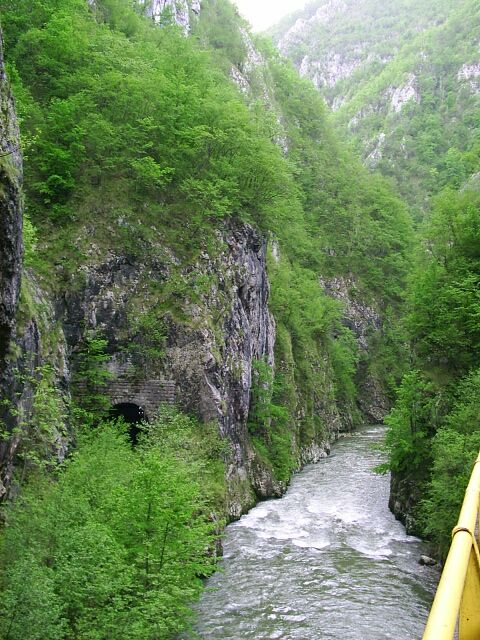 Prača river valley, BiH